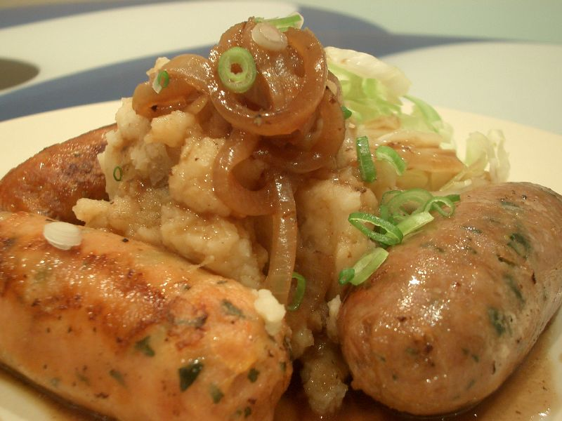 Sausage Trio, Mash and Cabbage with Onion Gravy. Nice and hearty on a cold Autumn day. I got the Moroccan, Lamb Spinach and Pinenut, and Chicken, asparagus and corn, sausages from David Jones Food Hall in Melbourne. They tasted quite good, but I remember them being more chunky and less processed. They are better quality than most "thin" sausages, higher meat content and less fatty.